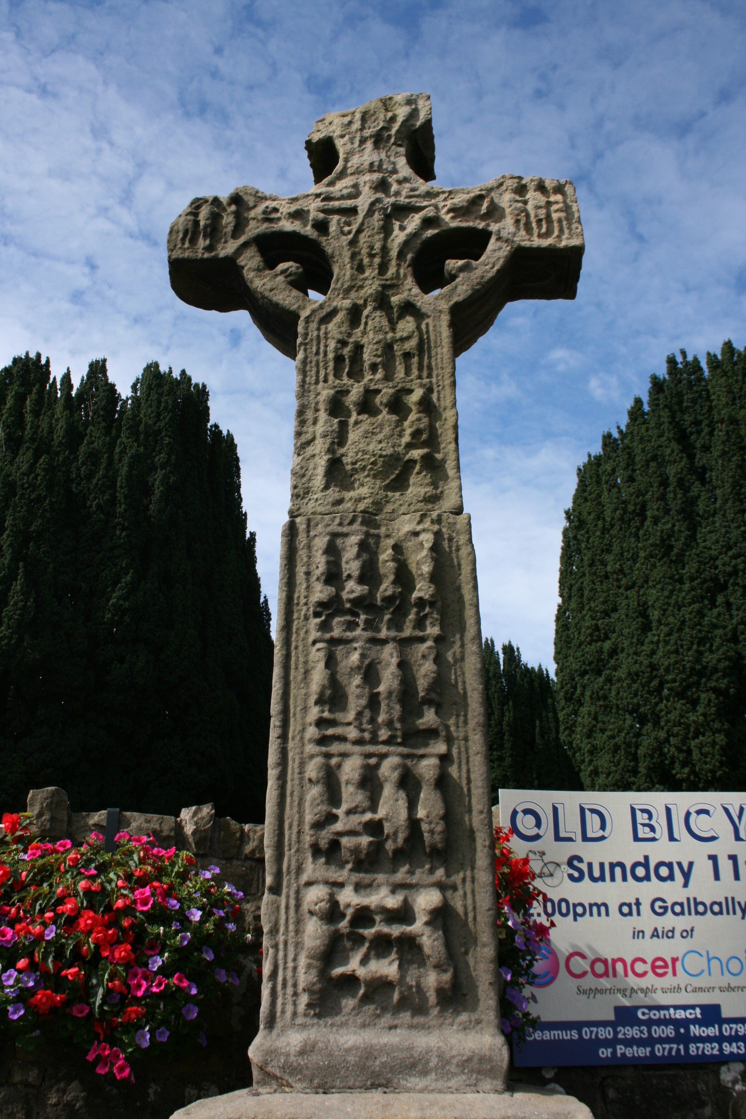 Donaghmore High Cross at the top of Main Street (9th Century)